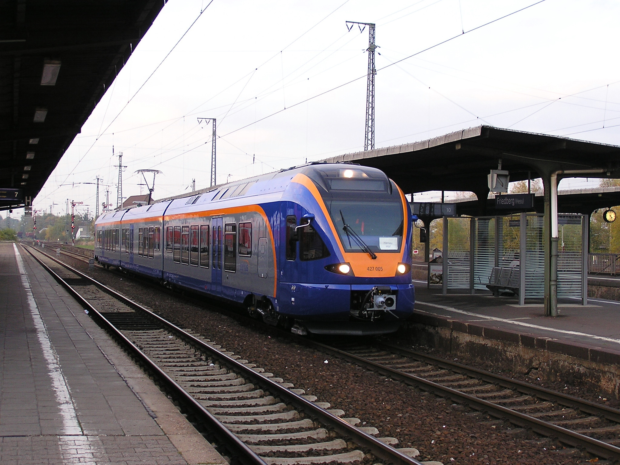 An EMU of the type Stadler FLIRT of the cantus transportation association on the Friedberg-Hanau Railway in Friedberg